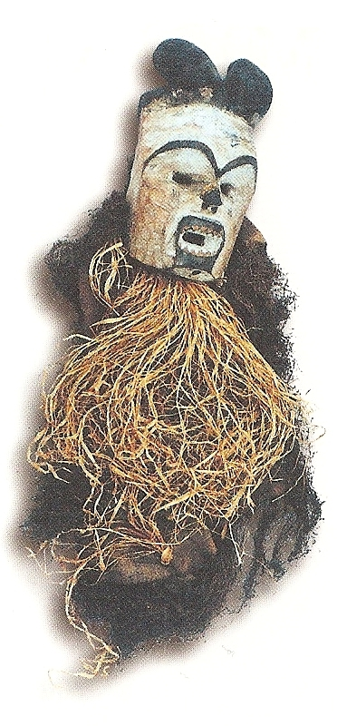 Bodi gabonese traditionnal mask from the Mitsogho ethny